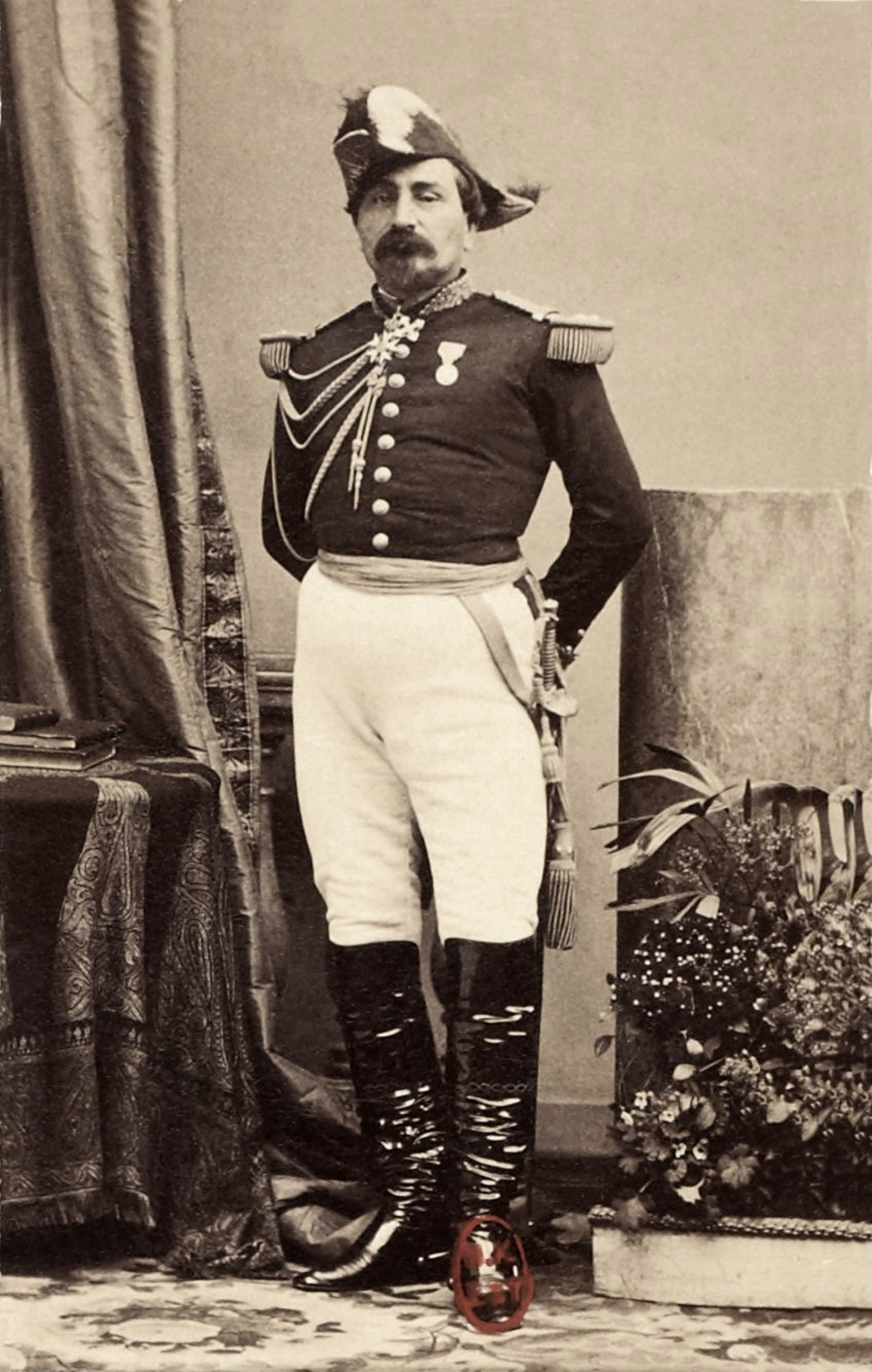 Henri Jules Bataille (1816-1882), french general